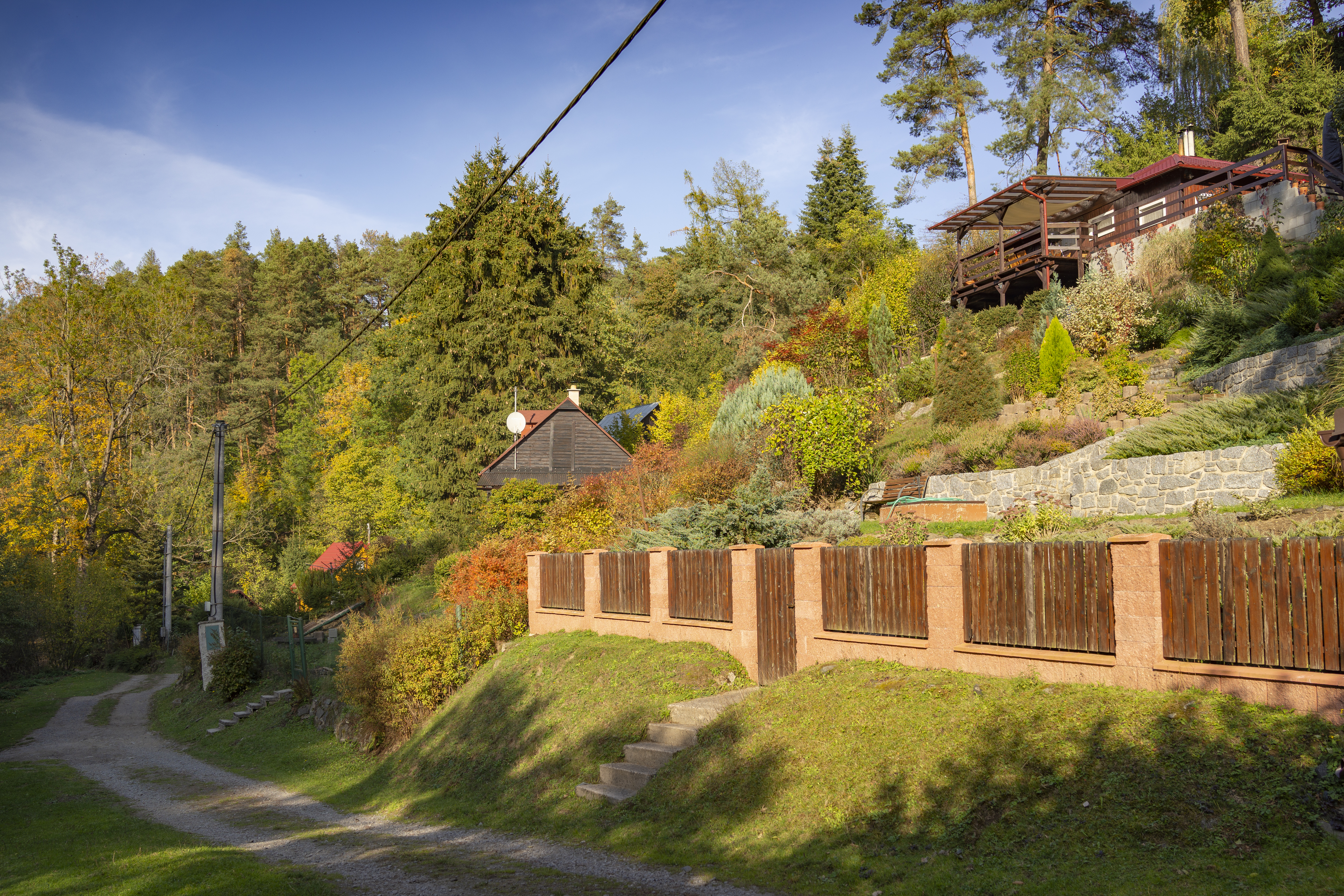 Doubravice 2. dil village near Vranov (Benesov District), Czech Republic